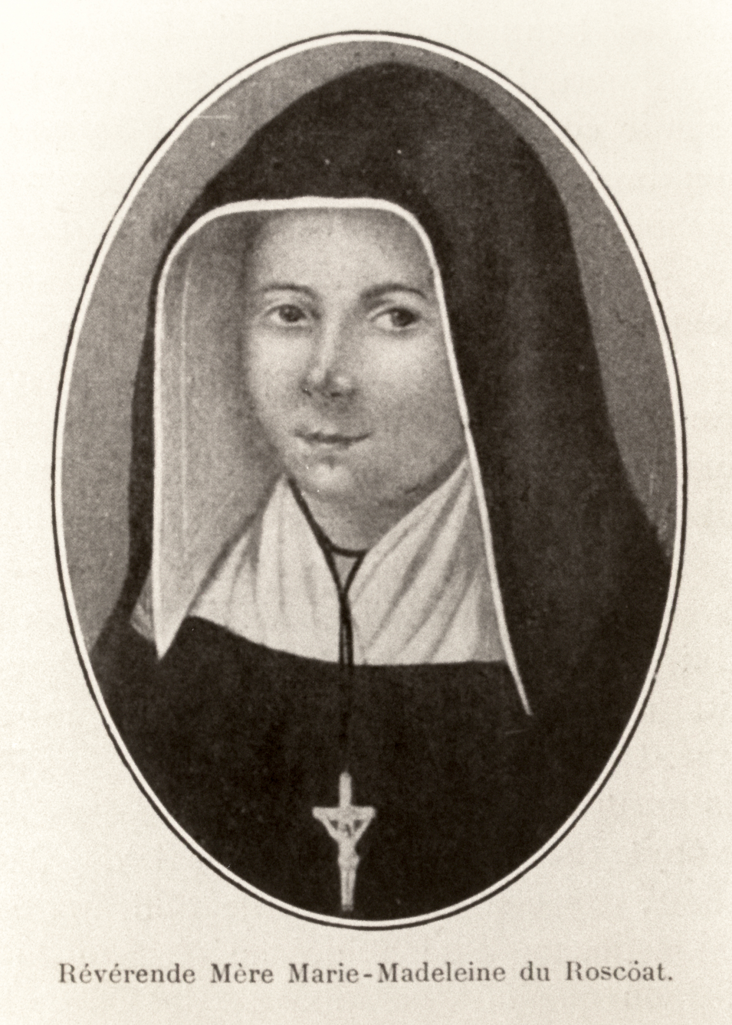 Reverend Mother Marie-Madeleine (Zoe du Roscoät), first superior general of the Sisters_of_Providence_(Ruillé-sur-Loir,_France).